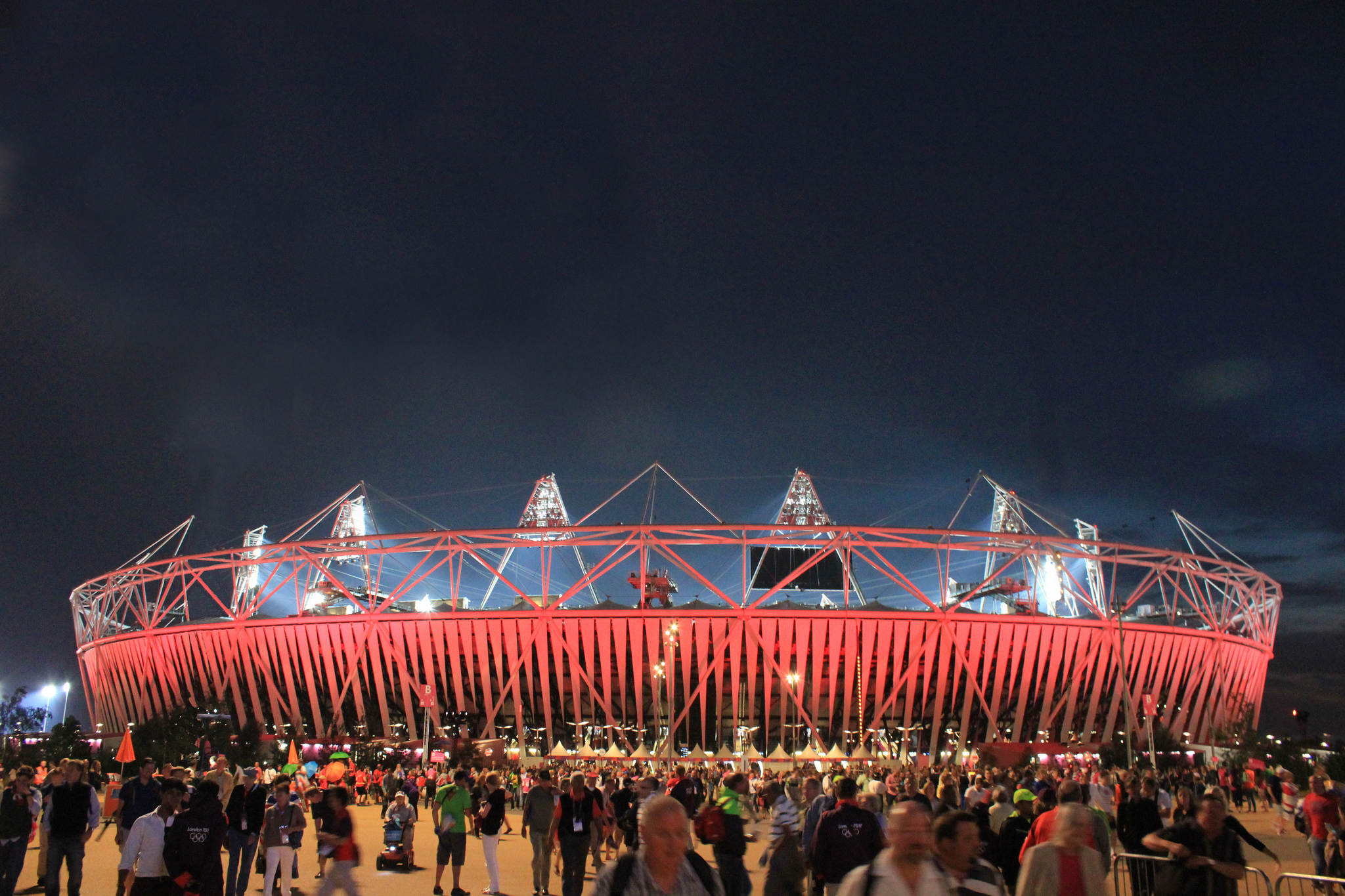 Olympic Stadium London 2012